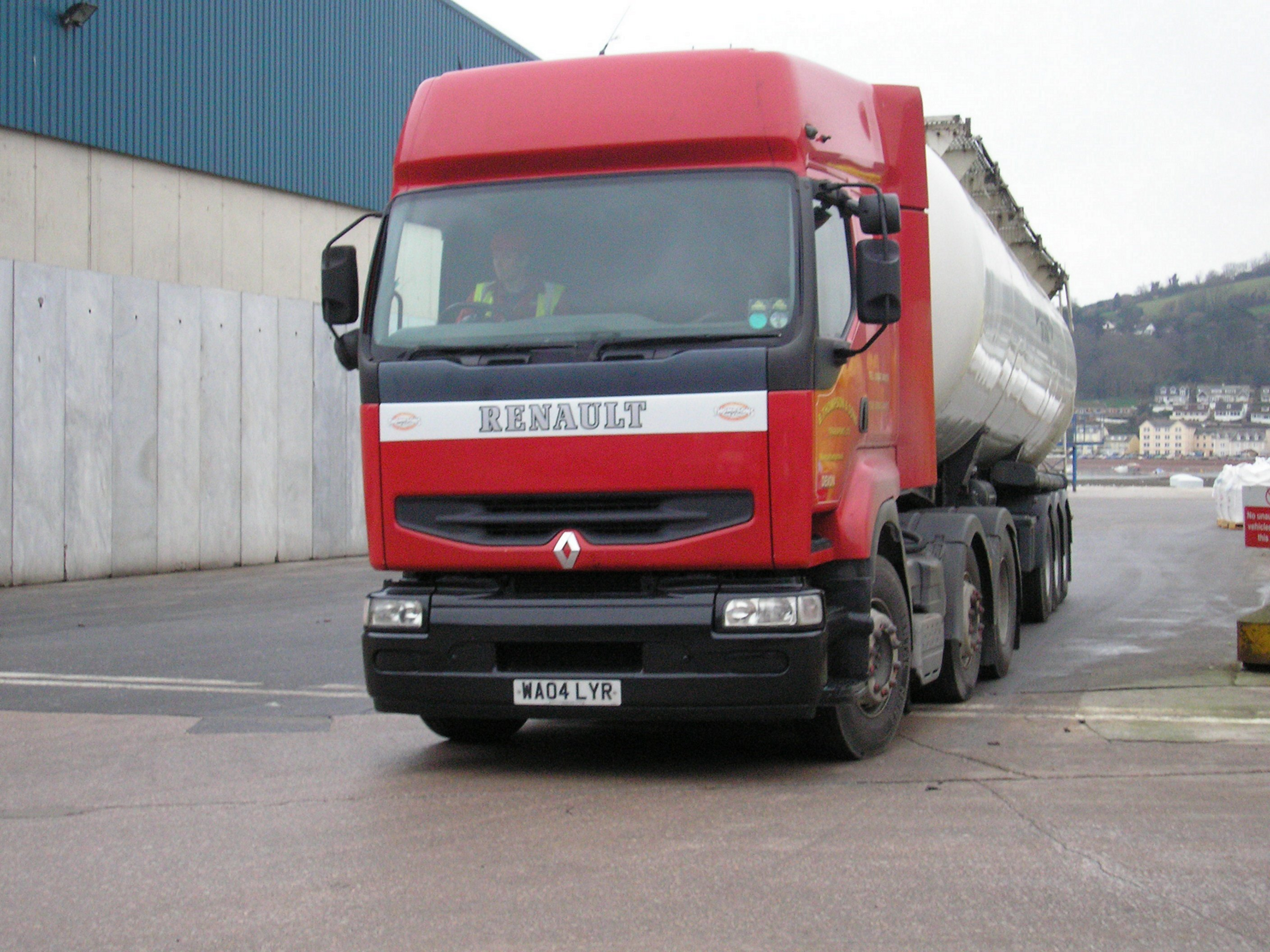 "Thompson and Son Transport Ltd" RENAULT Reg. No. WA04 LYR transferring a bulk load between ships at the Port of Teignmouth on 8th January 2013. Camera: Olympus FE-120 6.0 Digital.